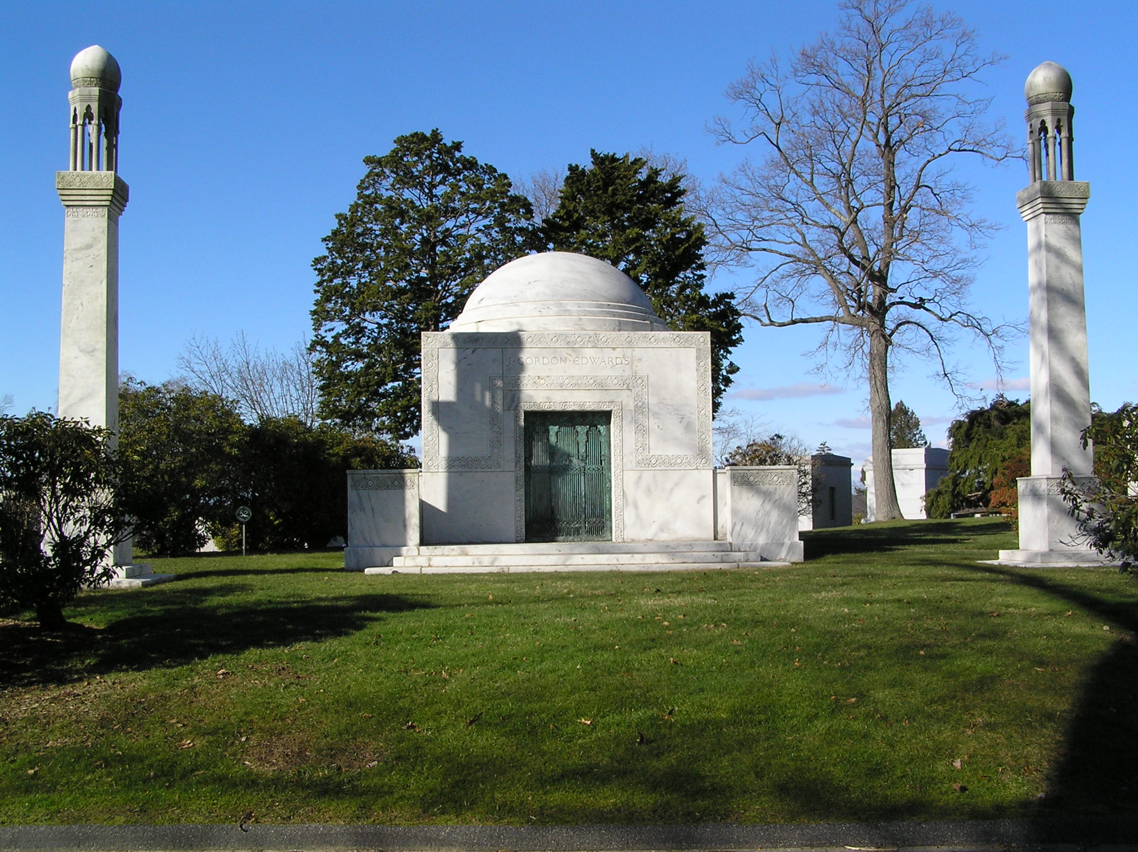 The tomb of J. Gordon Edwards with Minarets in Kensico Cemetery